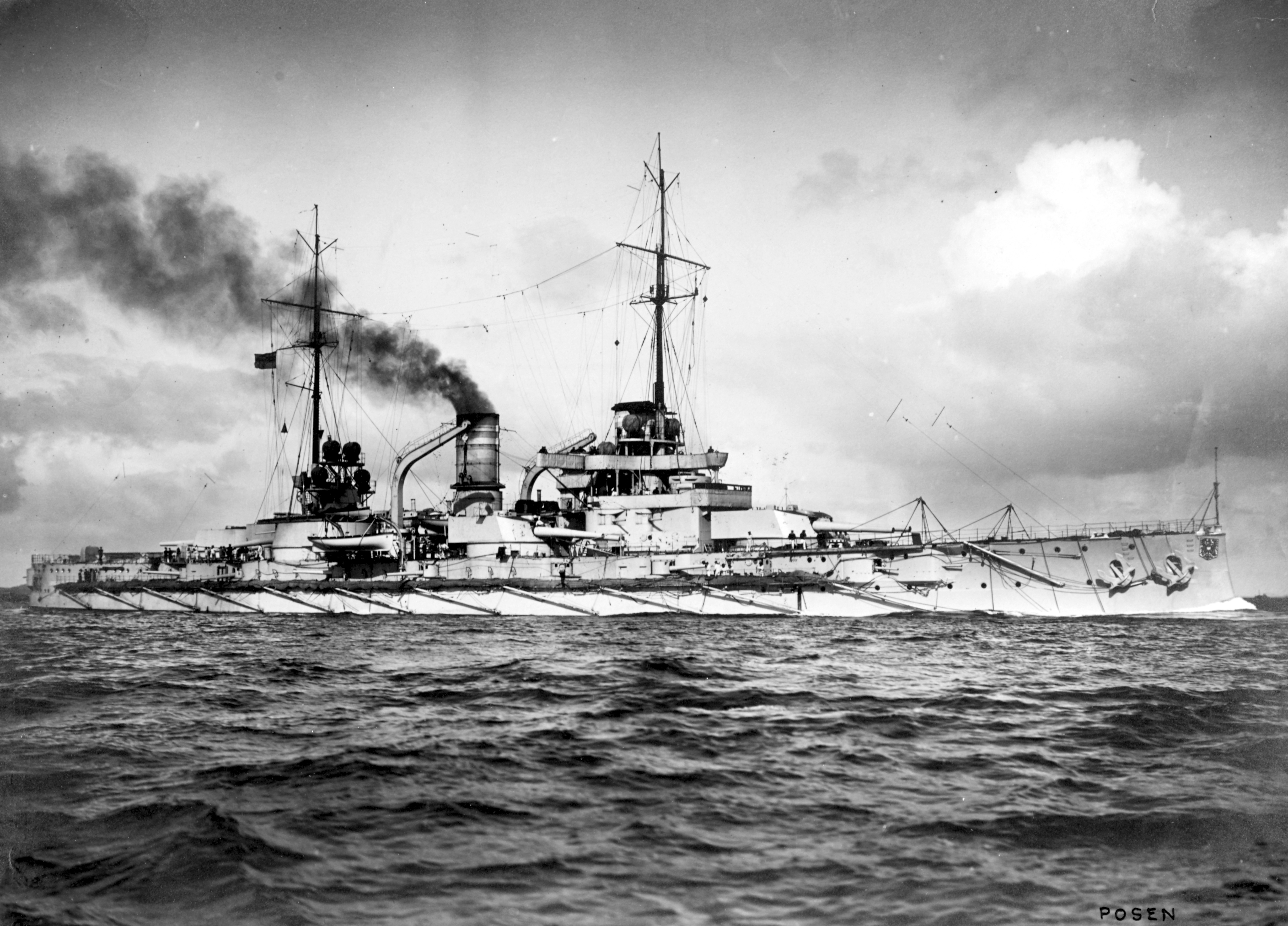 POSEN (German battleship, 1908-1922) Caption: Photographed by Arthur Renard of Kiel, in a photograph received by U.S. Naval Intelligence on 17 May 1911, not long after the ship entered active service on 31 May 1910.